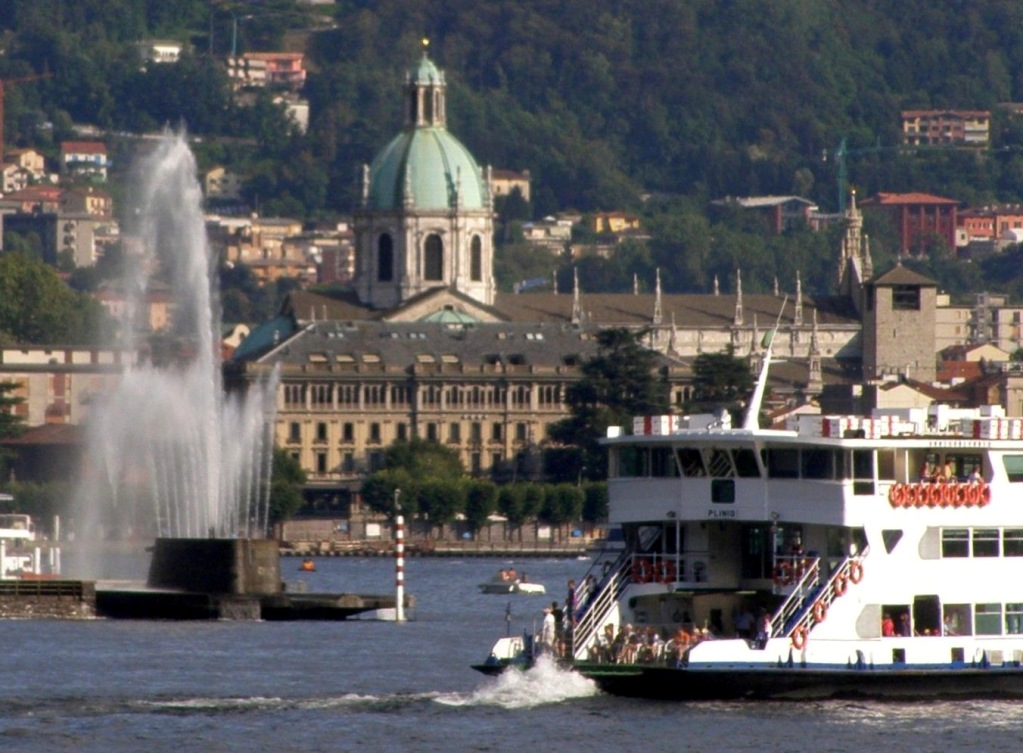 The town of Como (Italy).